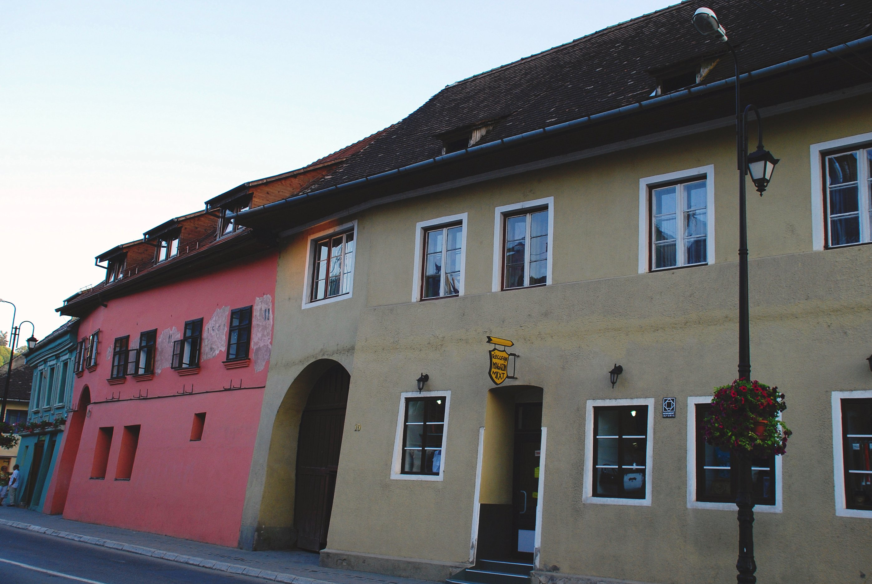 More info: My photostream